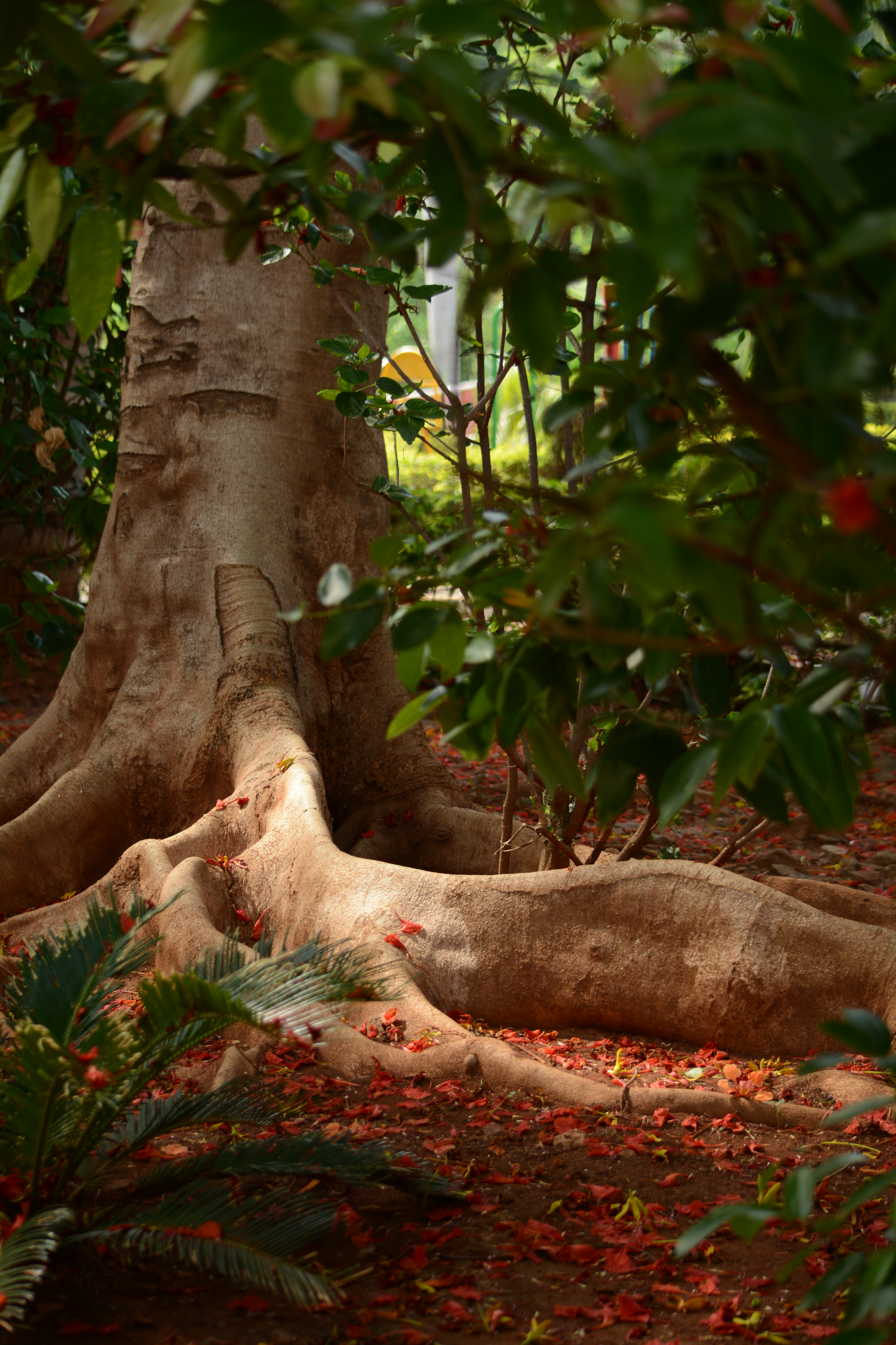 Natural lighting